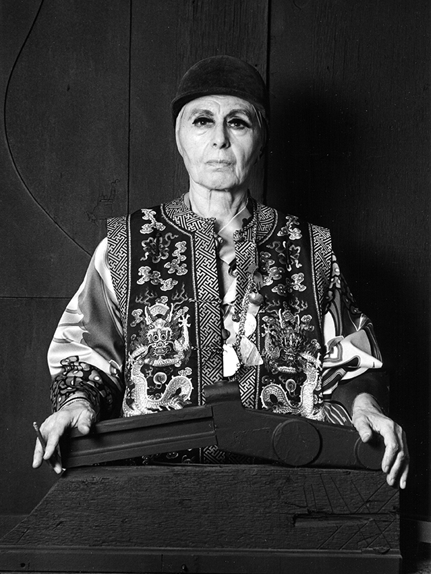 Louise Nevelson portrait by Lynn Gilbert, 1976, as commissioned by the Pace Gallery, New York.